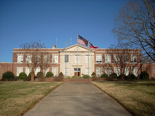 Burgess Administration Building (1950-1951)